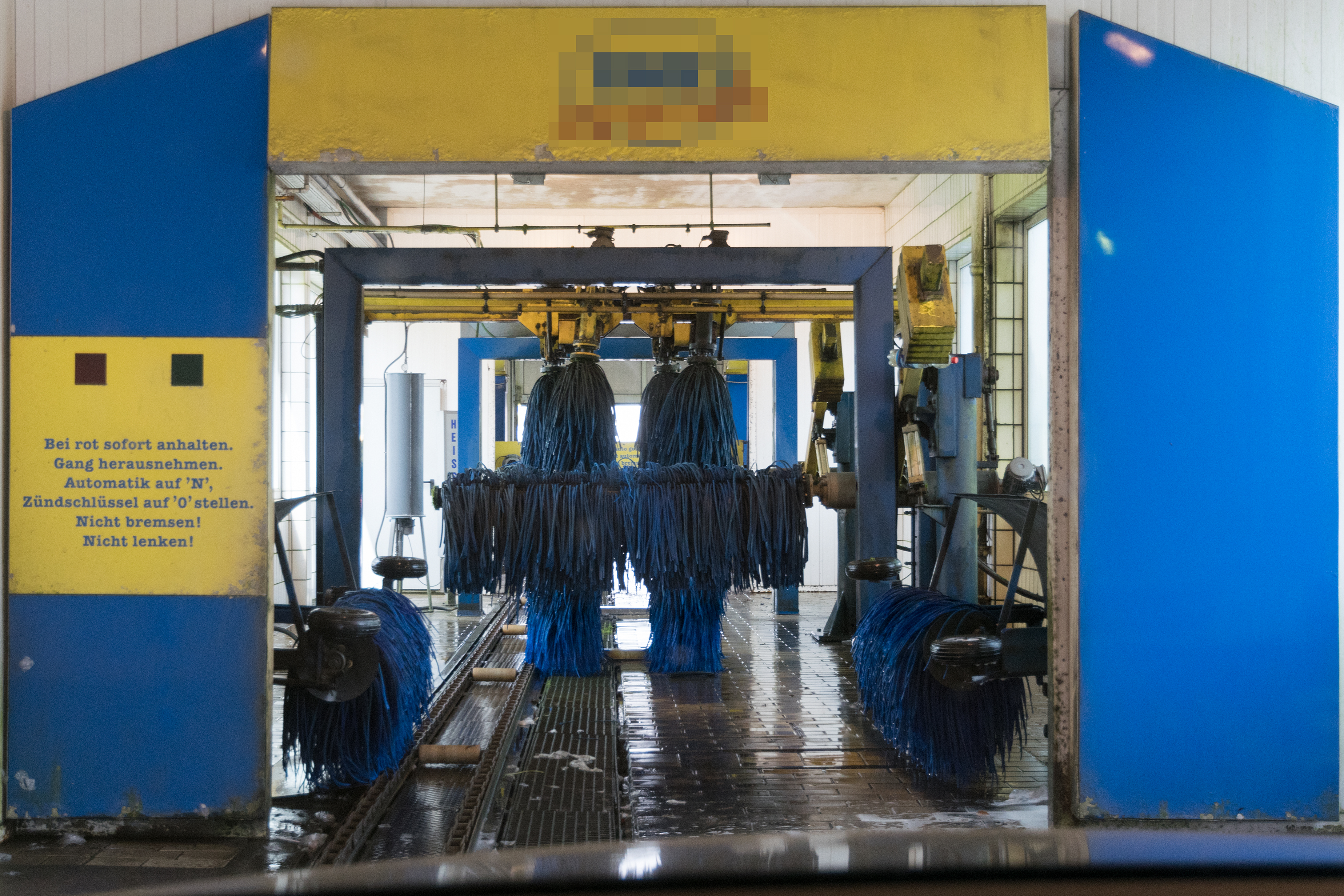 Car wash in Marburg